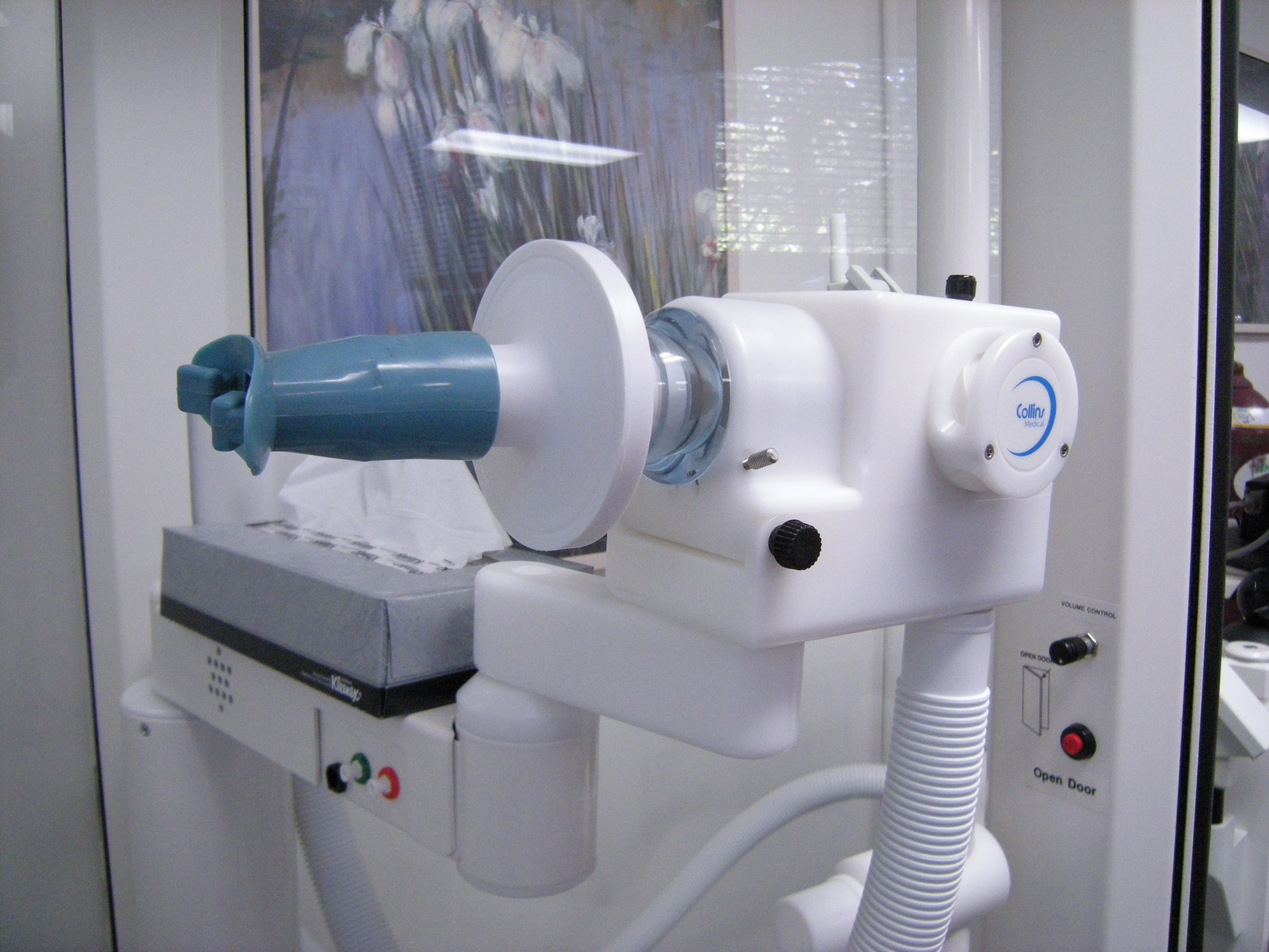 Device into which a patient breathes for Spirometry, Body Plethysmography and other related medical tests. Photographed at Swedish Hospital Ballard Campus, Seattle, Washington.